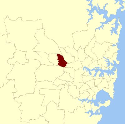 Location of the New South Wales Legislative Assembly electoral district within Sydney in New South Wales. Reference: [1]